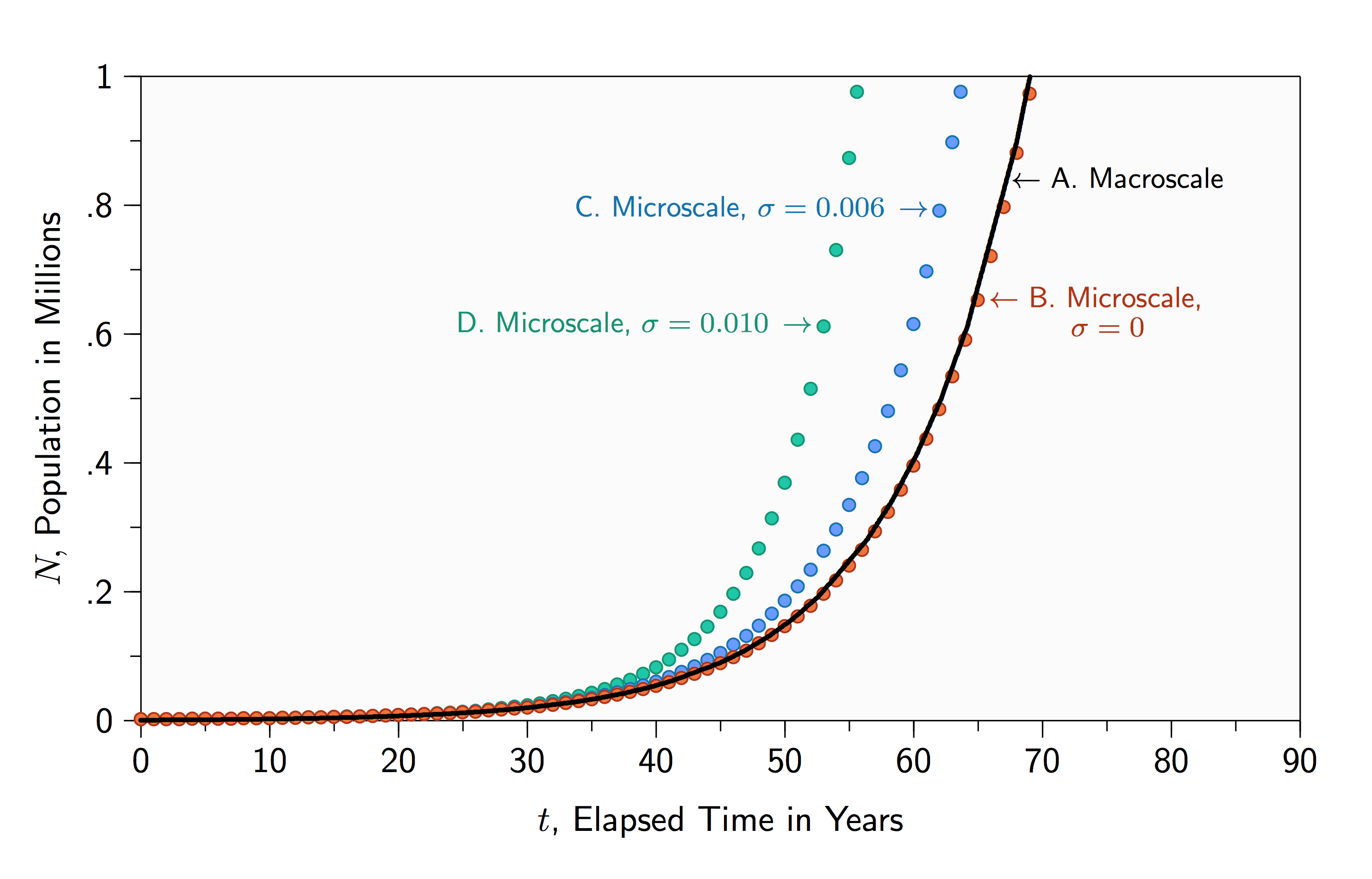 Graphical output of microscale and macroscale models for unlimited population growth